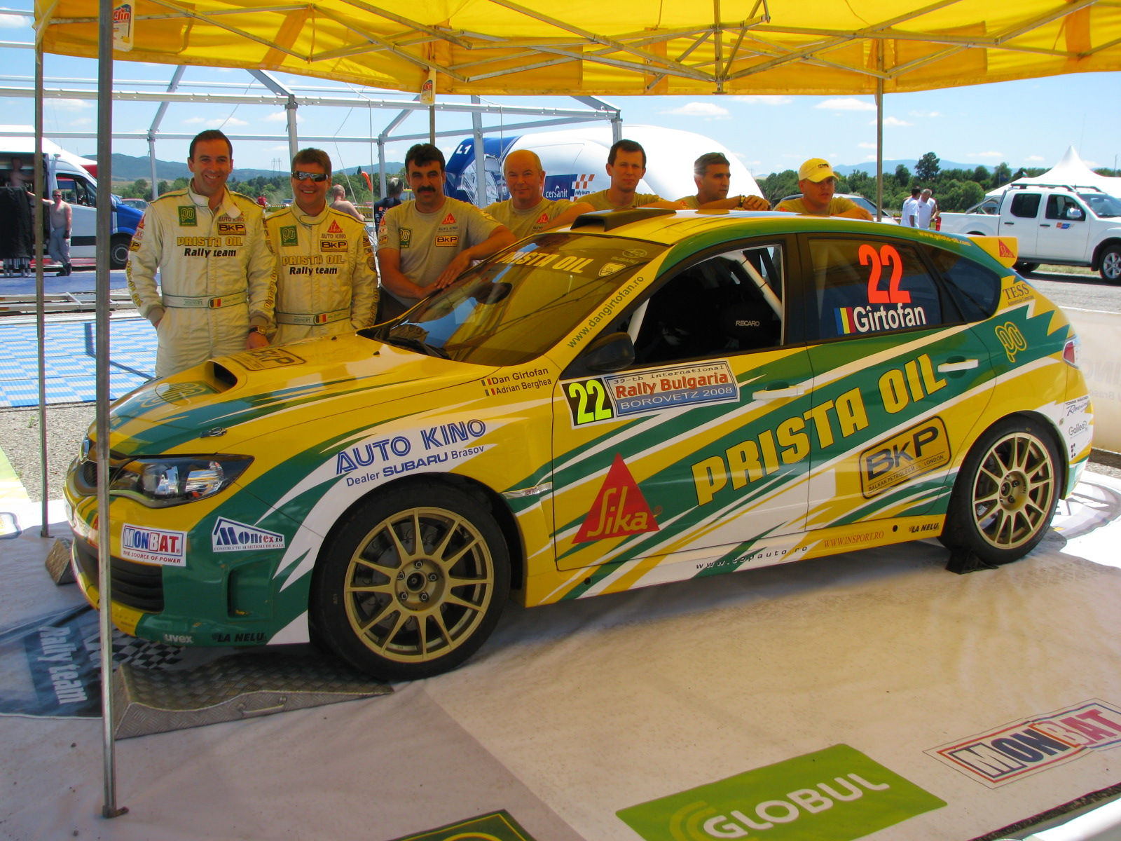 Prista Oil Rally Team in 2008.